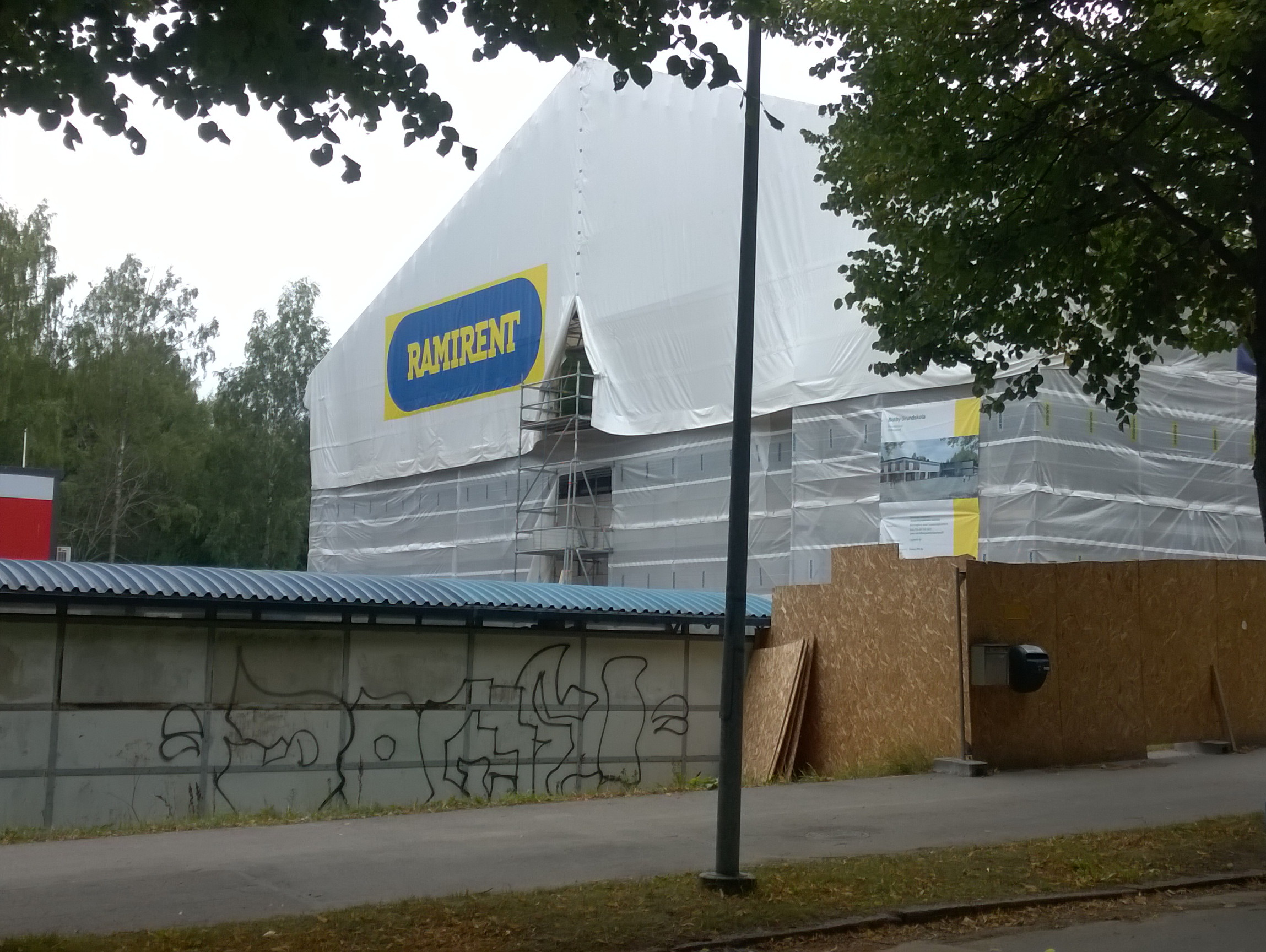 Botby grundskola, Puoltiharju, Helsinki, Finland. - School under renovation in 2018.